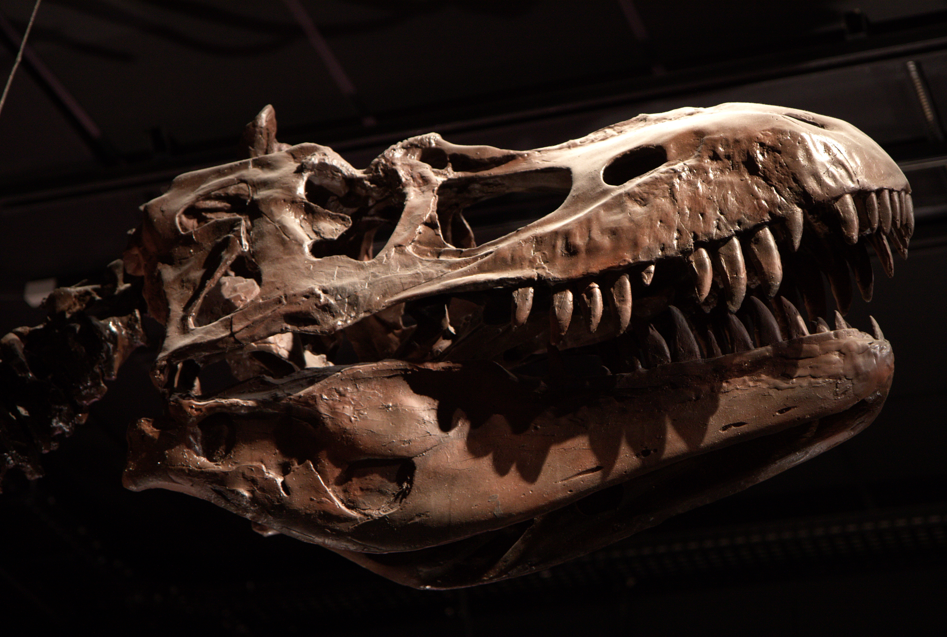 Un crane d'Albertosaurus. The making of this document was supported by Wikimédia France. (Submit your project!)